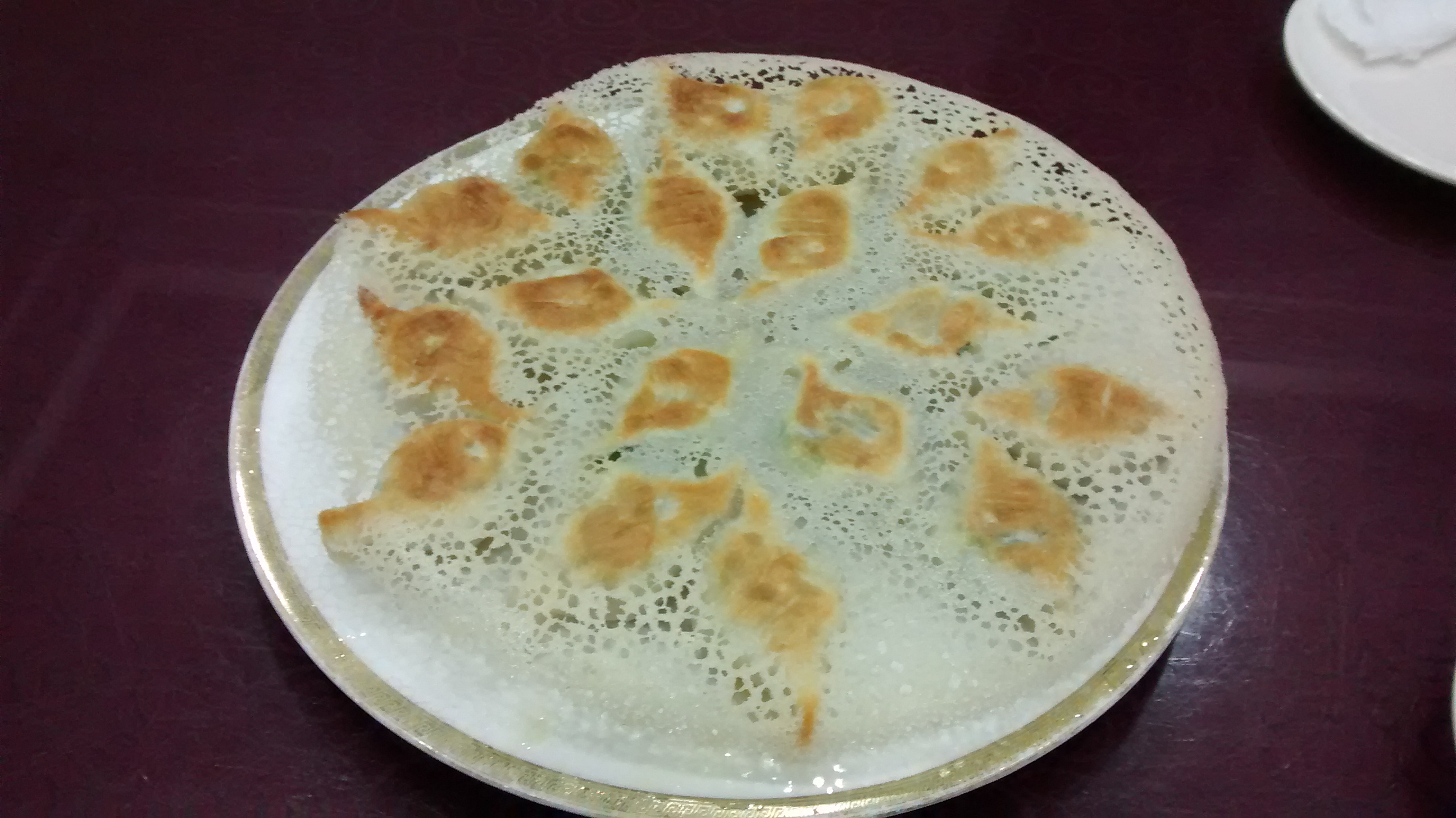 Frost Flower Fried Dumplings from Laobiao Dumpling (老边饺子), Shenyang, China